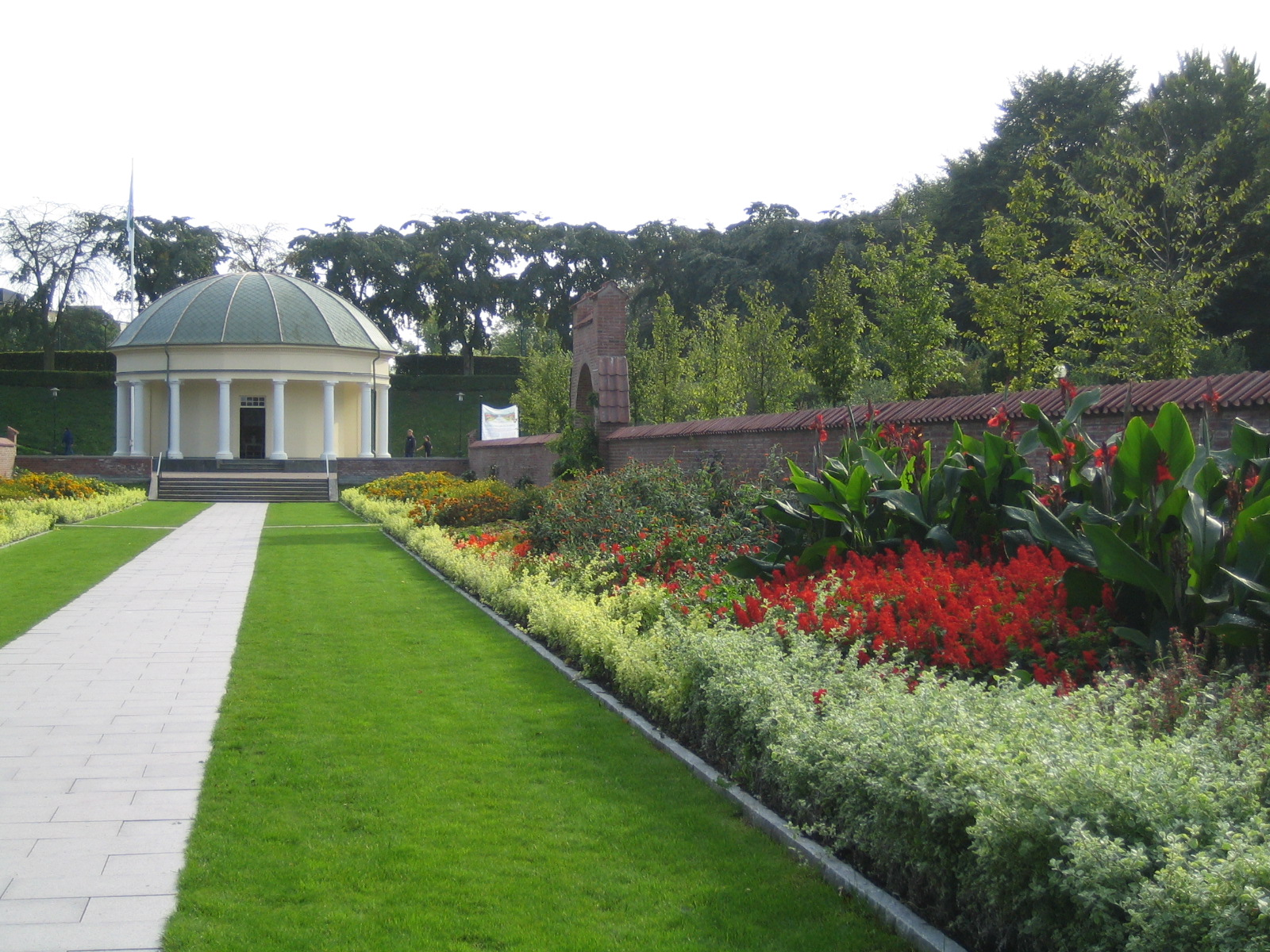 Crown princess Margerets pavillion and flower avenue in Pildammsparken, Malmö.